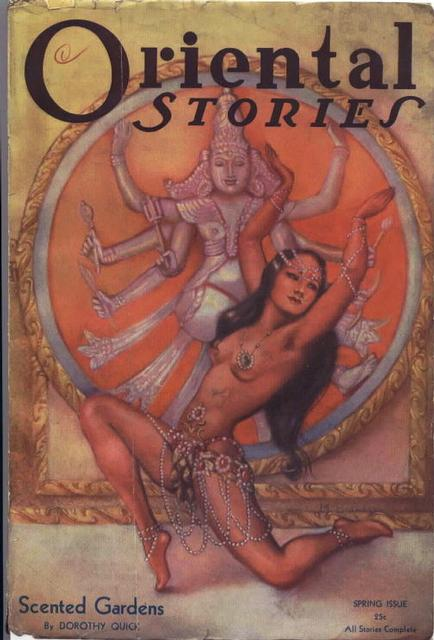 Cover of the pulp magazine Oriental Stories (Spring 1932, vol. 2, no. 2) featuring Scented Gardens by Dorothy Quick. Cover art by Margaret Brundage.